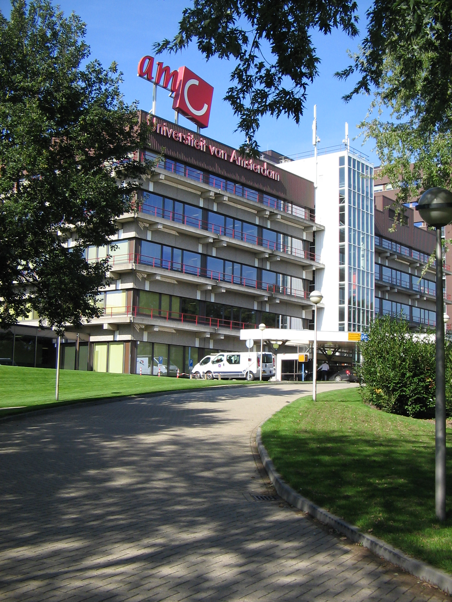 AMC (University Medical Centre), Amsterdam, side entrance.